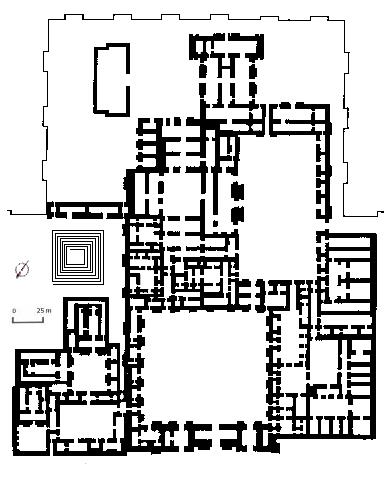 Map of the palace of Dur-Sharrukin.